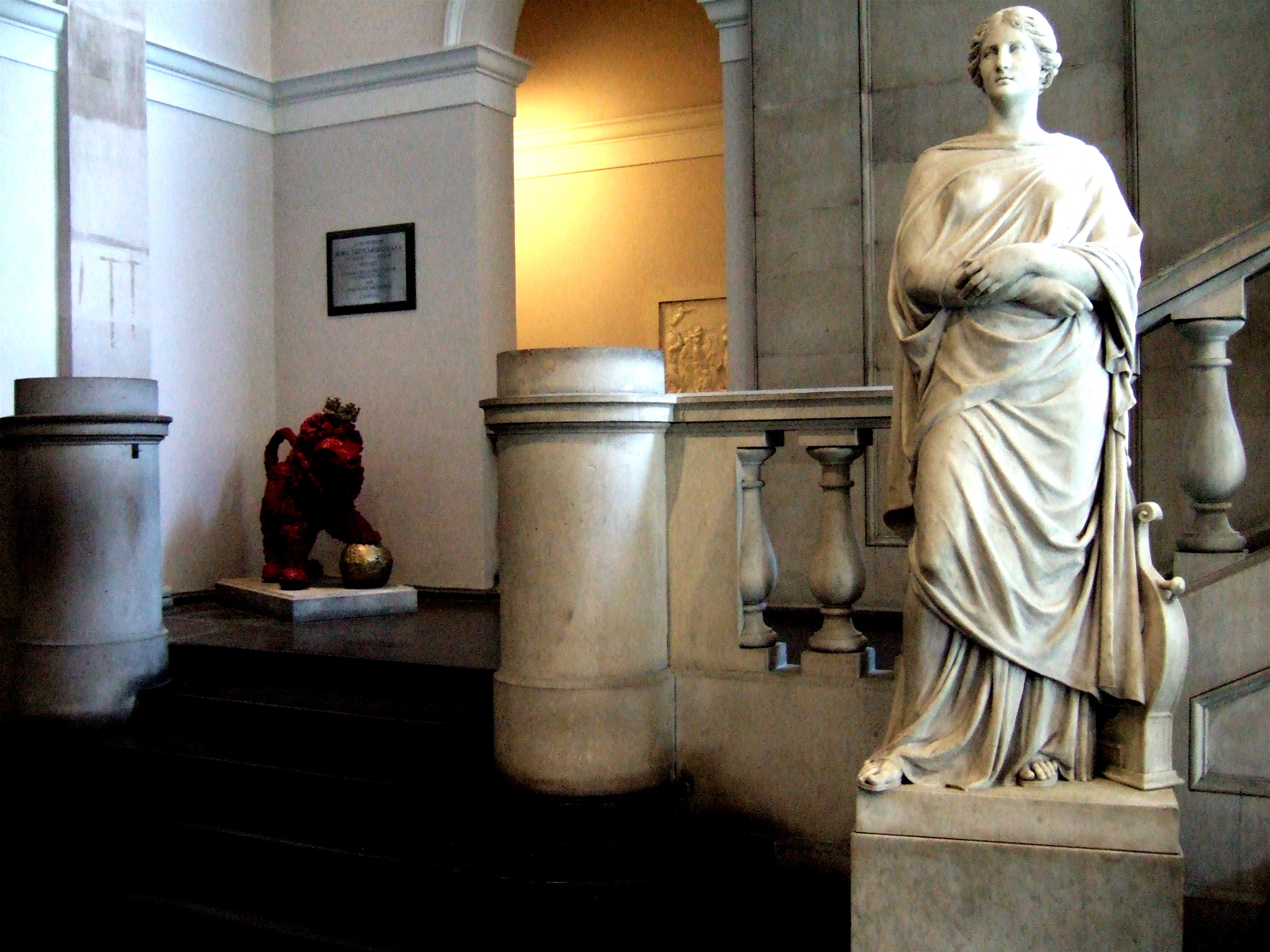 A Classical sculpture of Sappho in the King's Building, Strand Campus, King's College London, England.